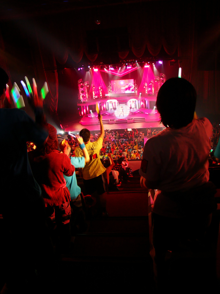 Morning Musume during their Platinum 9 Tour 2009 at Nakano Sun Plaza, Tokyo